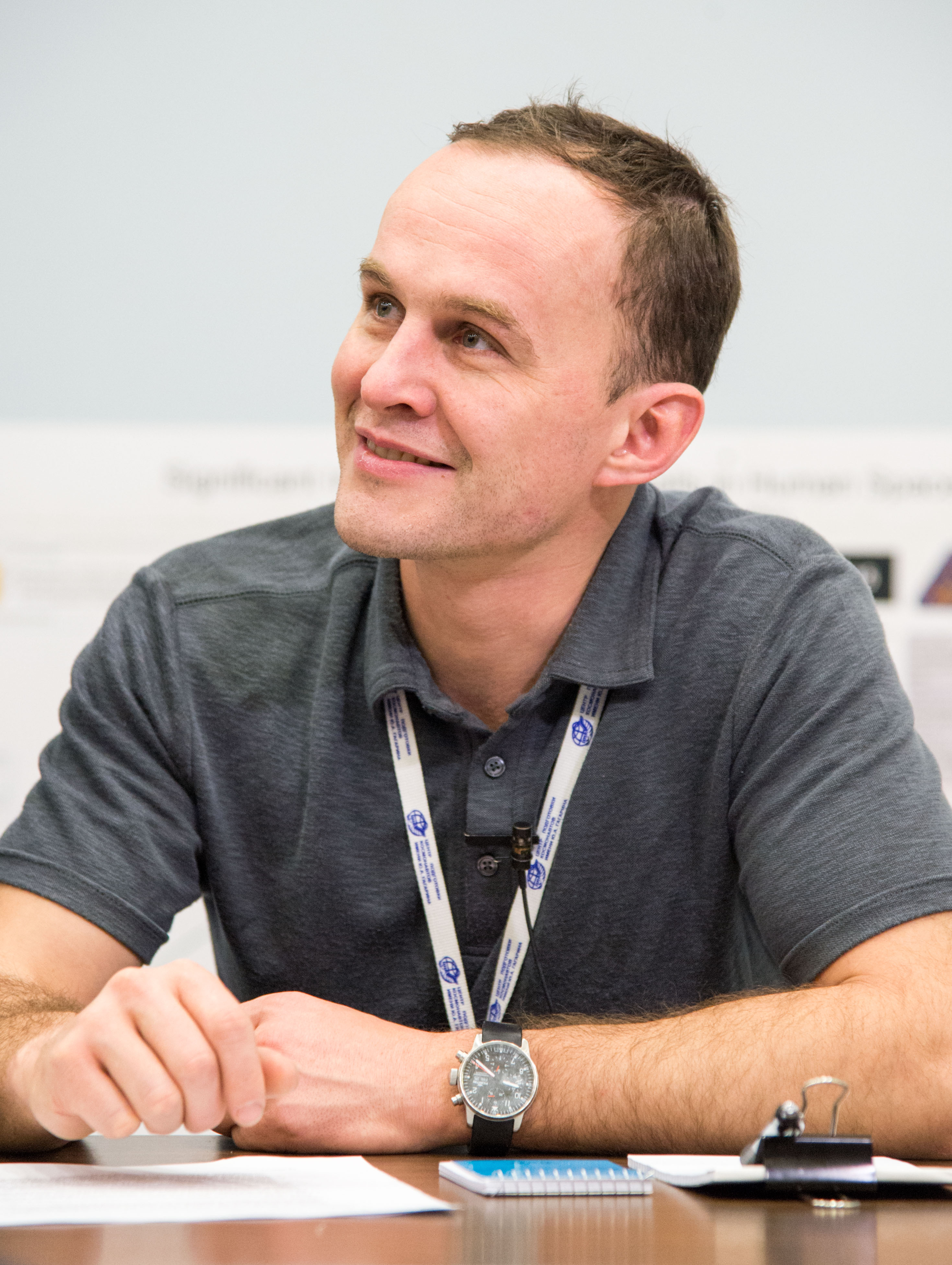 Russian cosmonaut Sergey Ryzansky, Expedition 37/38 flight engineer, is pictured during an emergency scenario training session in the Space Vehicle Mock-up Facility at NASA's Johnson Space Center.